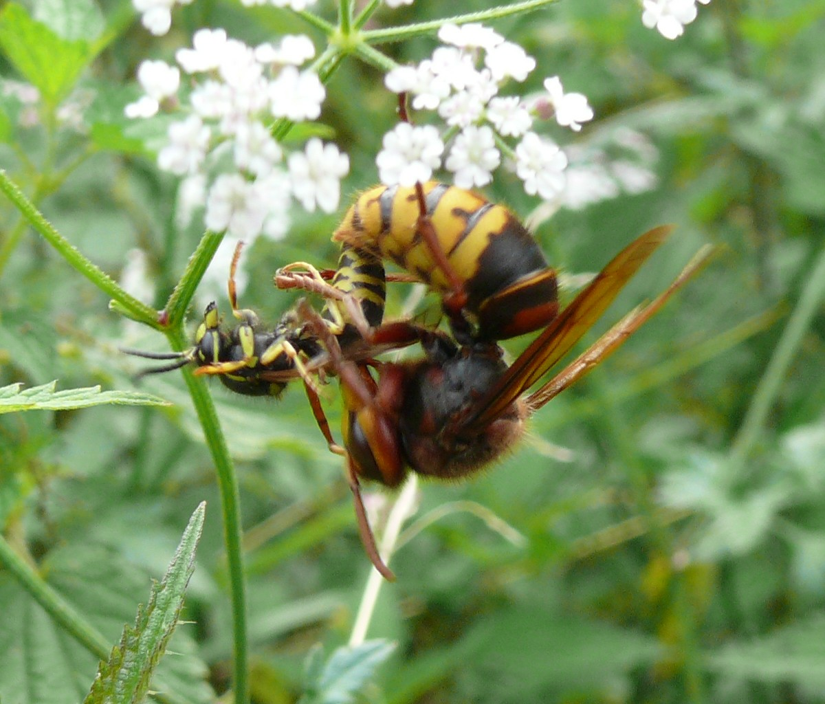 European hornet with prey (wasp)